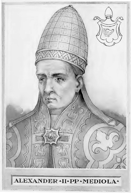 This illustration is from The Lives and Times of the Popes by Chevalier Artaud de Montor, New York: The Catholic Publication Society of America, 1911. It was originally published in 1842.